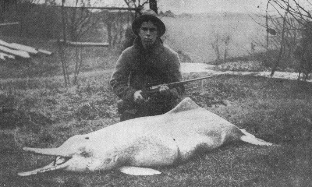 A Baiji Dolphin killed in 1914 by Charles Hoy, a American.